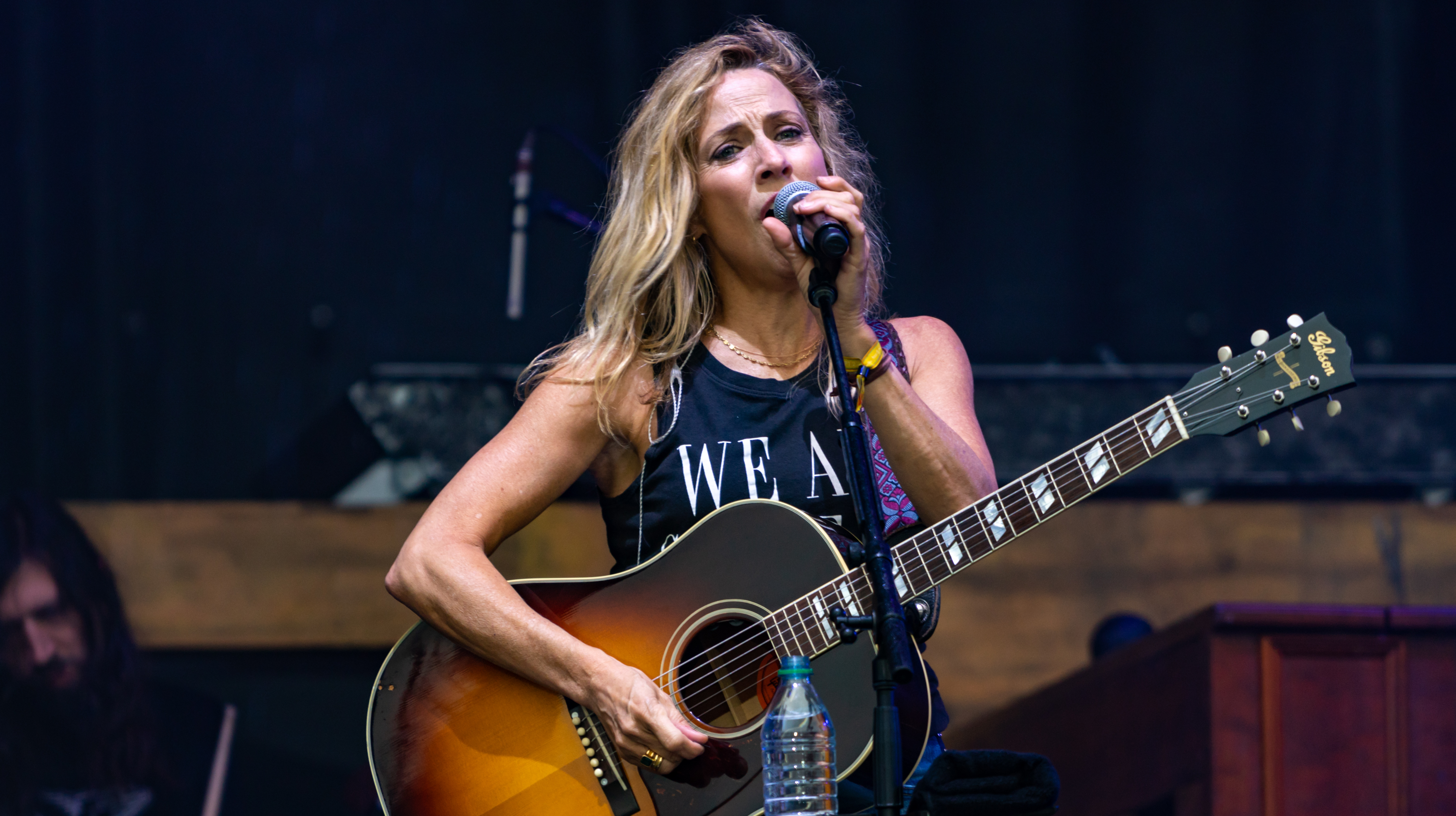 SherlCrowBourbon220918-20